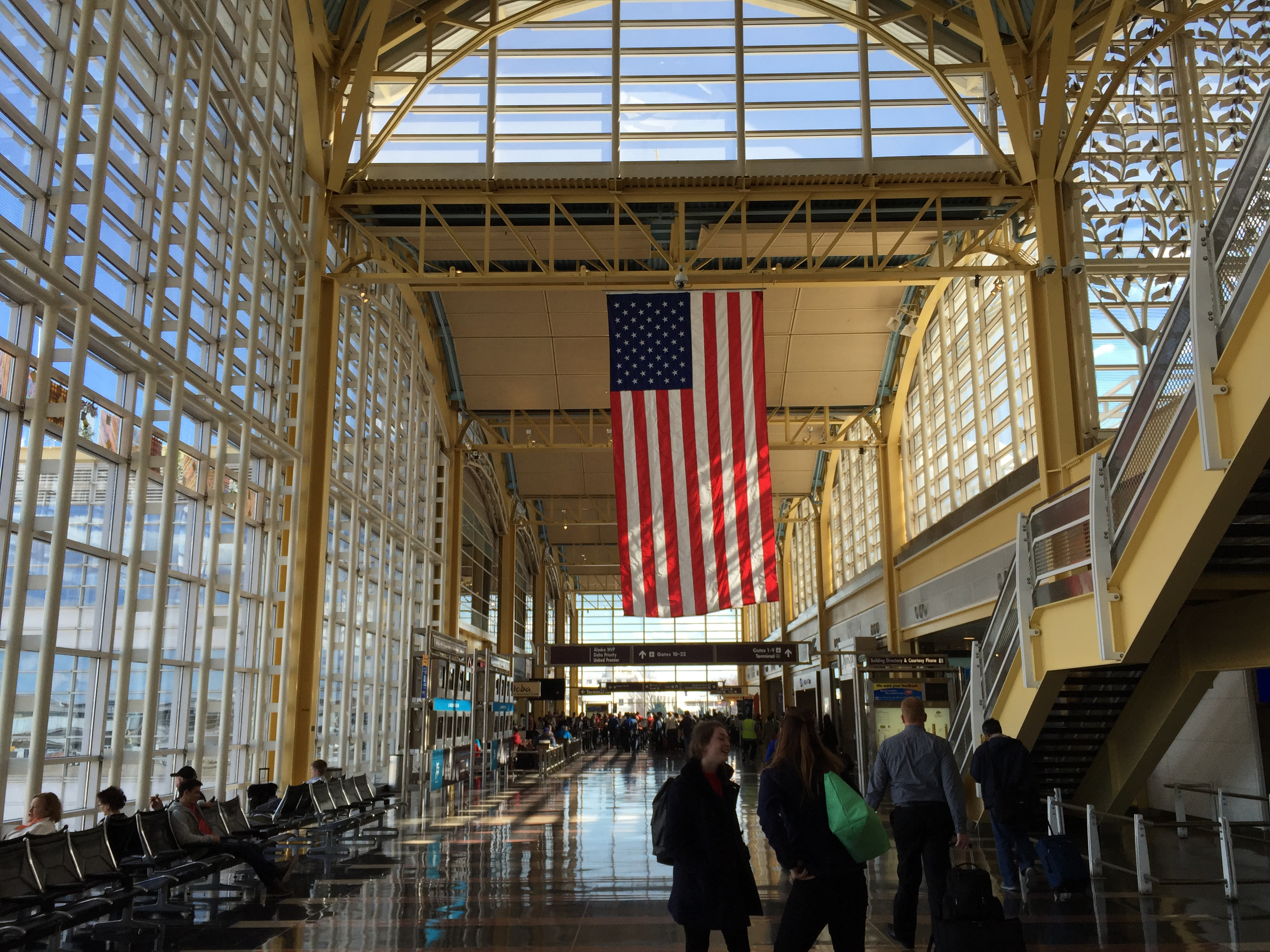 Interior of Terminal B at Ronald Reagan Washington National Airport in Arlington, Virginia